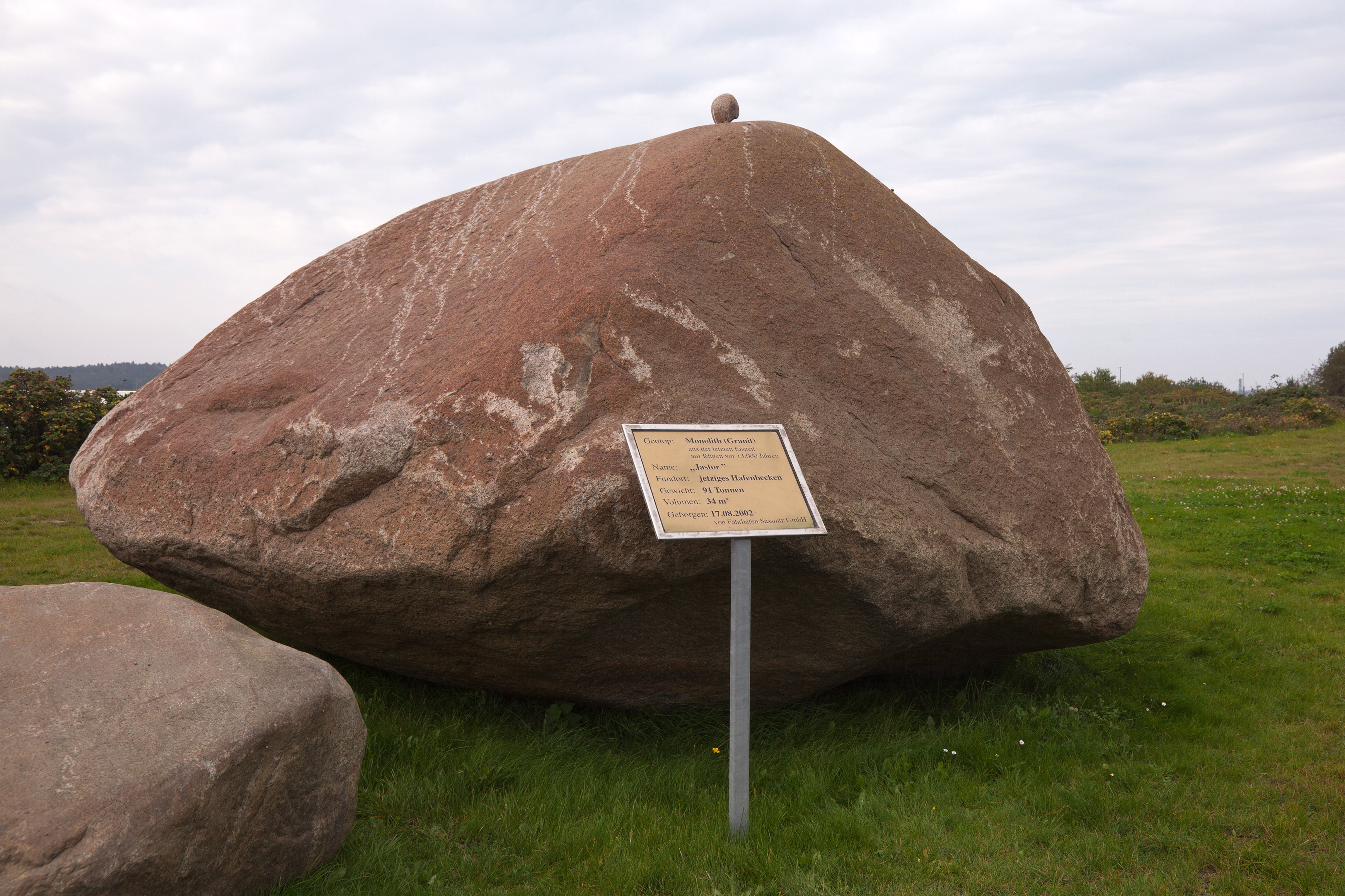 Jastor (Glacial erratic near Sassnitz, Rügen Island, Germany)